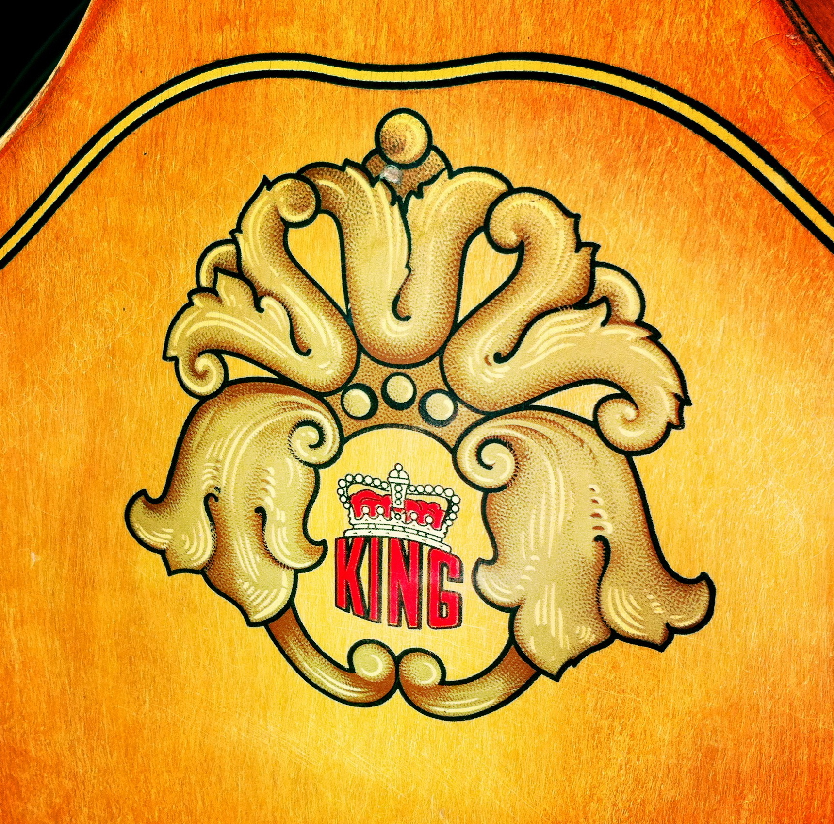 1957 H.N. White King Mortone double bass logo (back)